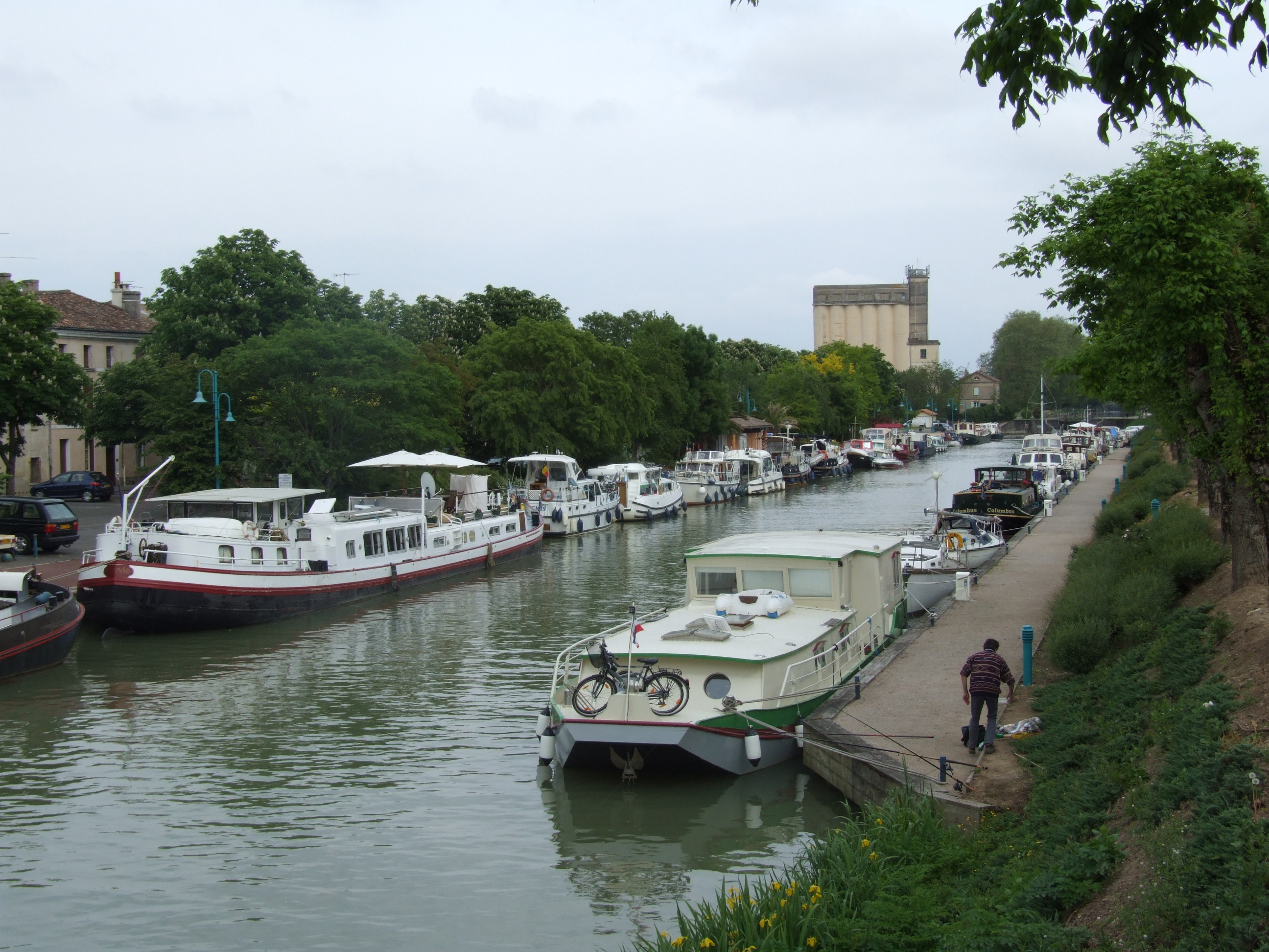 'Canal latéral à la Garonne' at Moissac